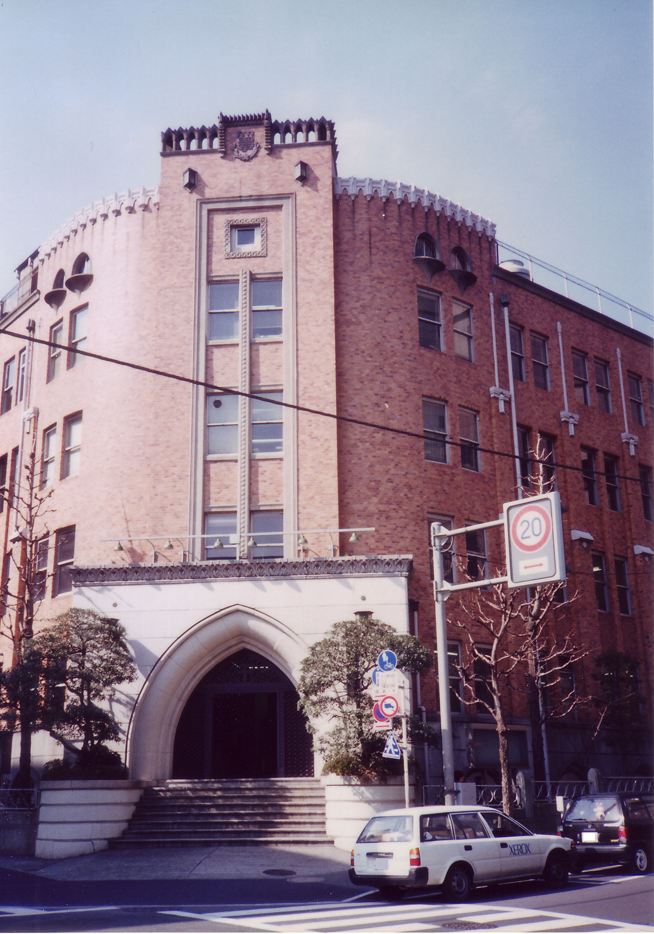 The former Building #1 of Surugadai Campus (College of Science and Technology), Nihon University.Built in 1929, removed in 2001.